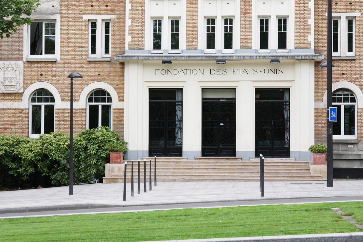 Fondation des Etats-Unis in Paris